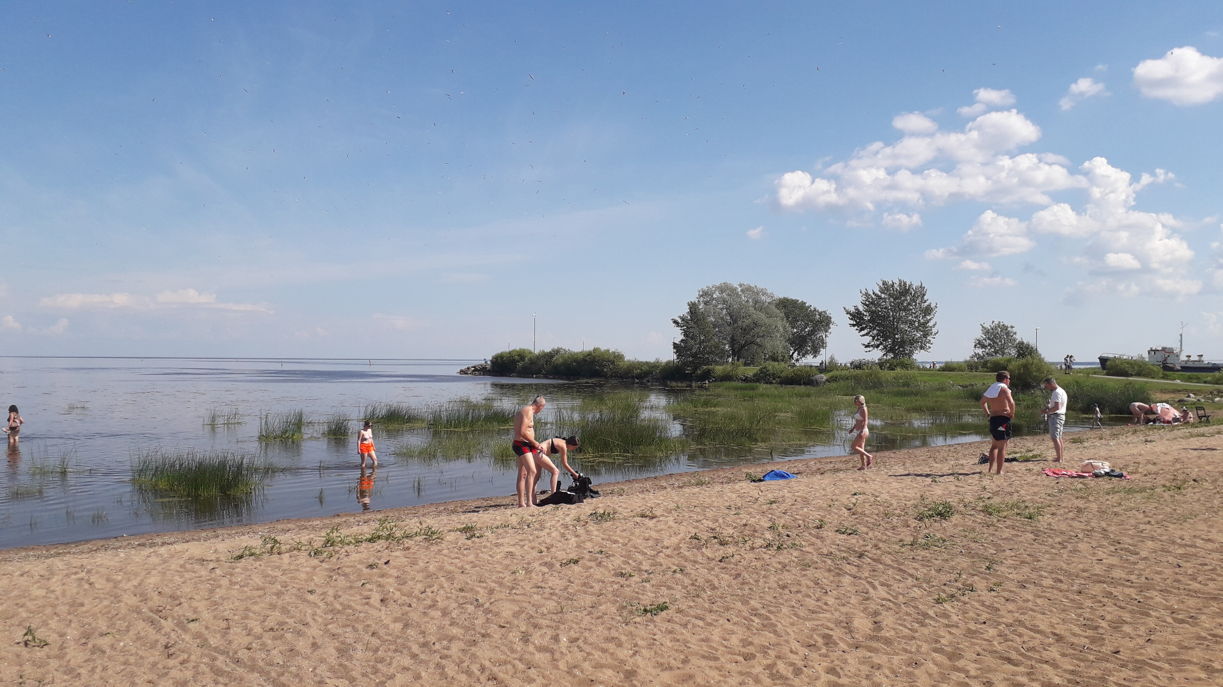 Mustvee, Peipussee